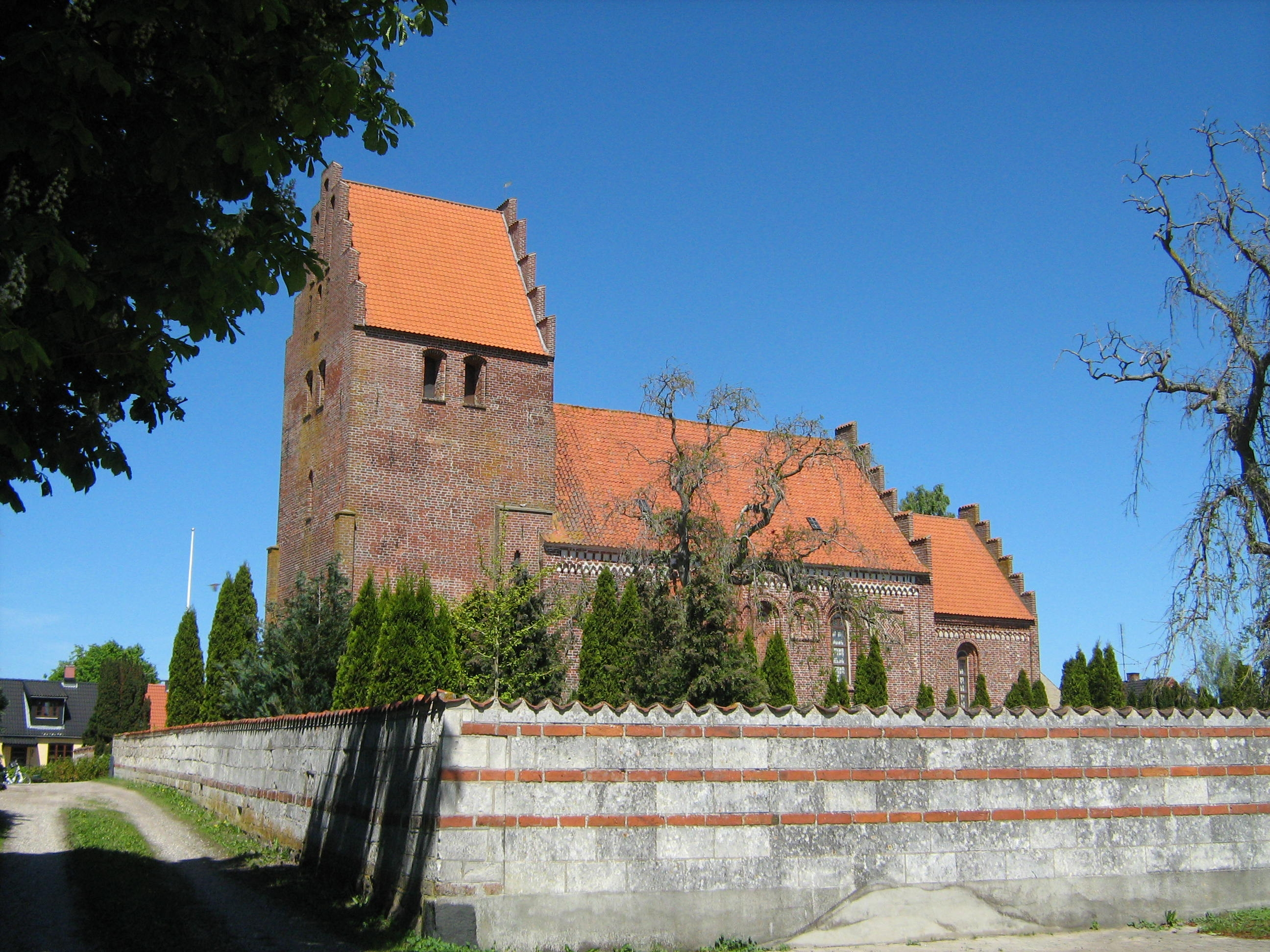 Borre Church on the Danish island of Møn. Brick built in Romanesque style.